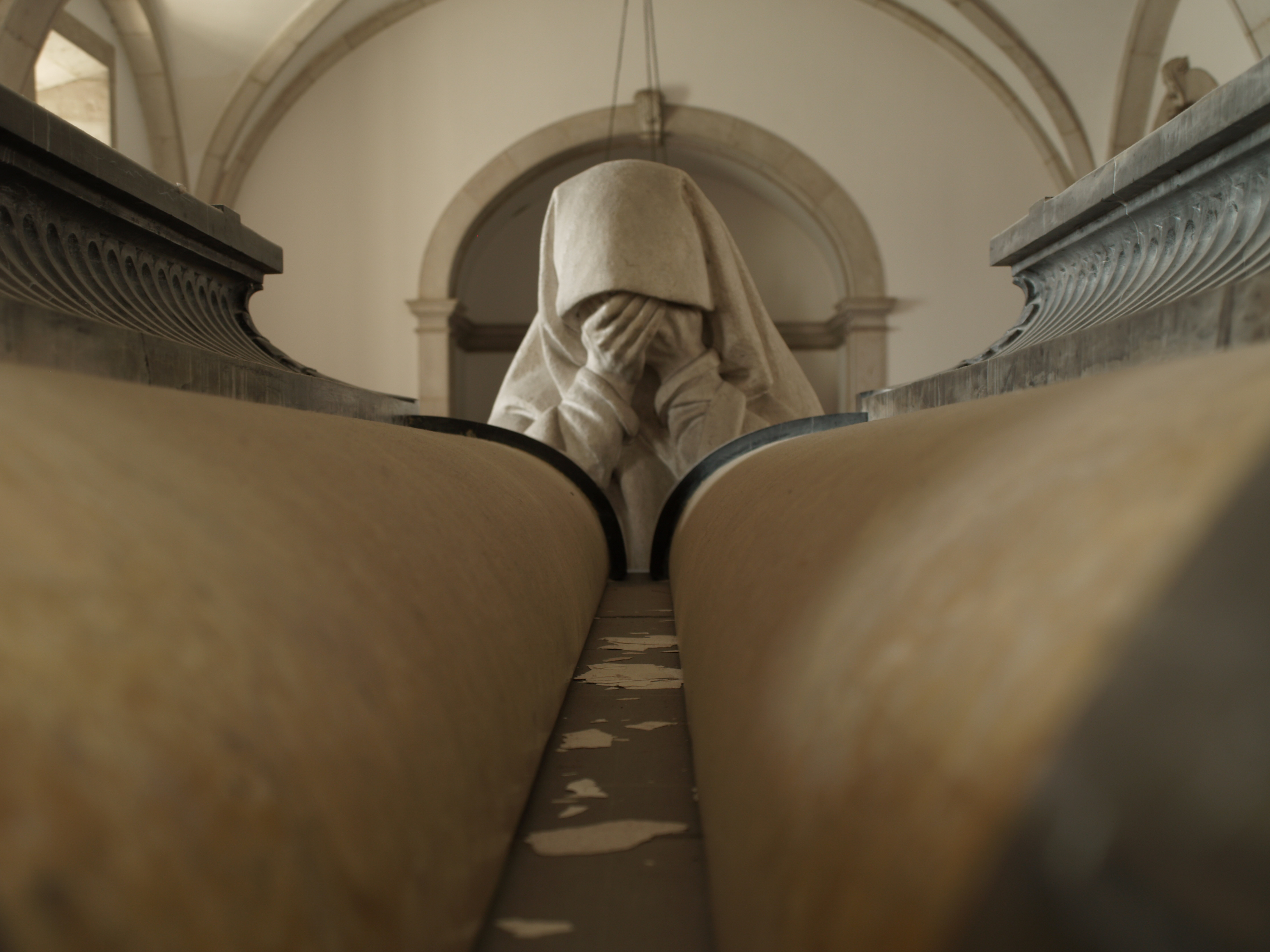 This file was uploaded for Wiki Loves Monuments in Portugal with the unique identifier 71213.